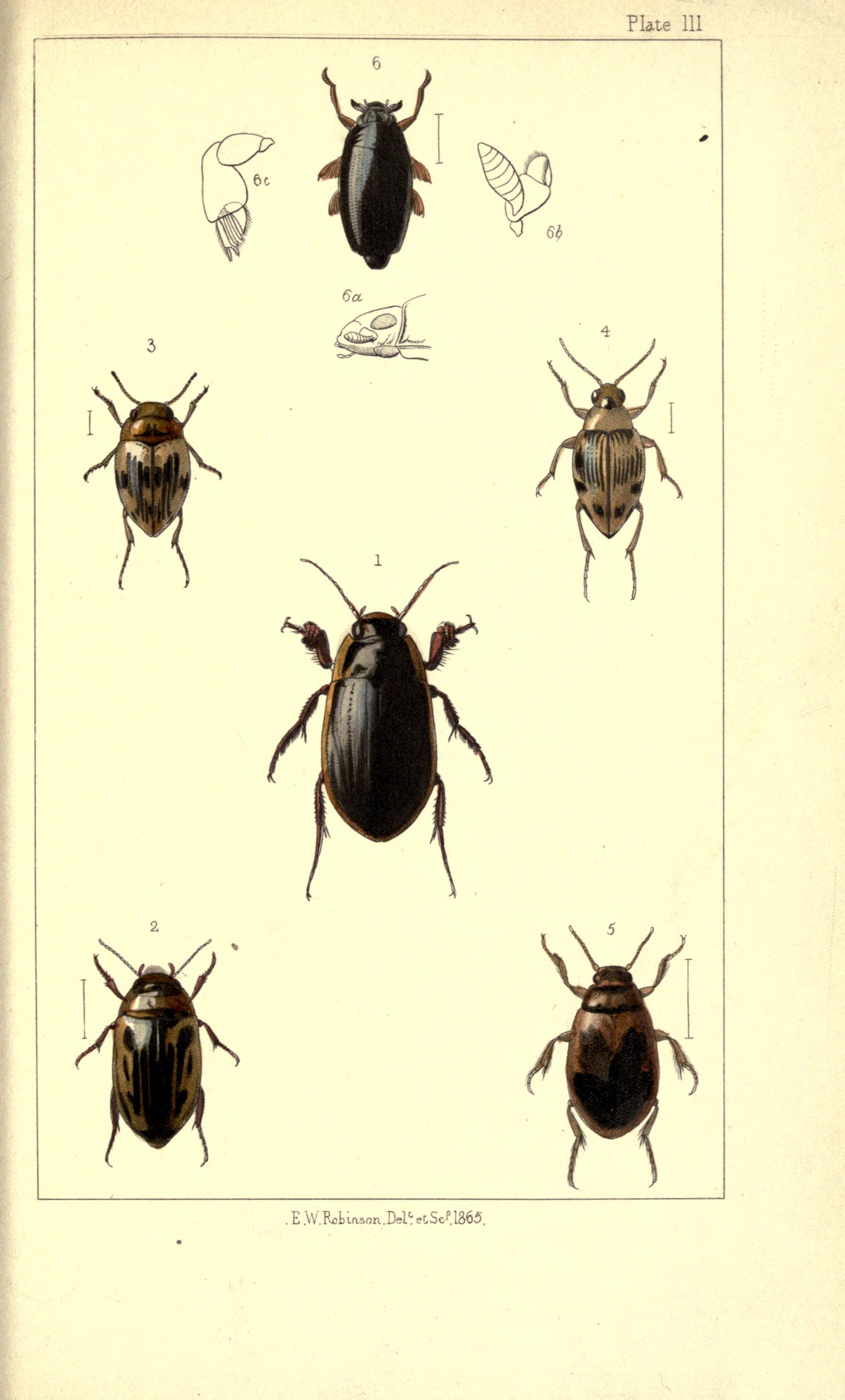 British beetles: an introduction to the study of our indigenous Coleoptera. By E. C. Rye ...